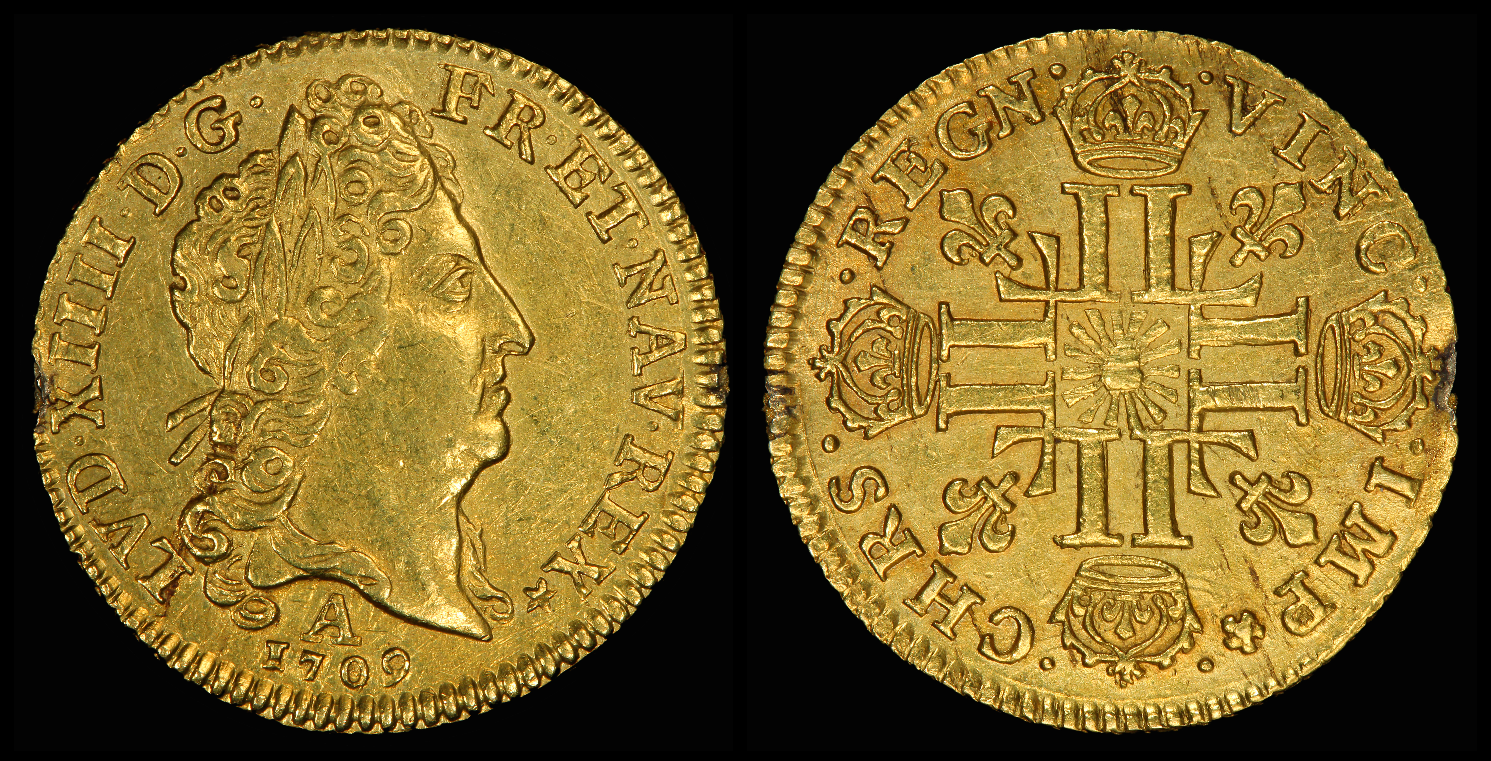 One Louis d'Or (1709), depicting Louis XIV of France